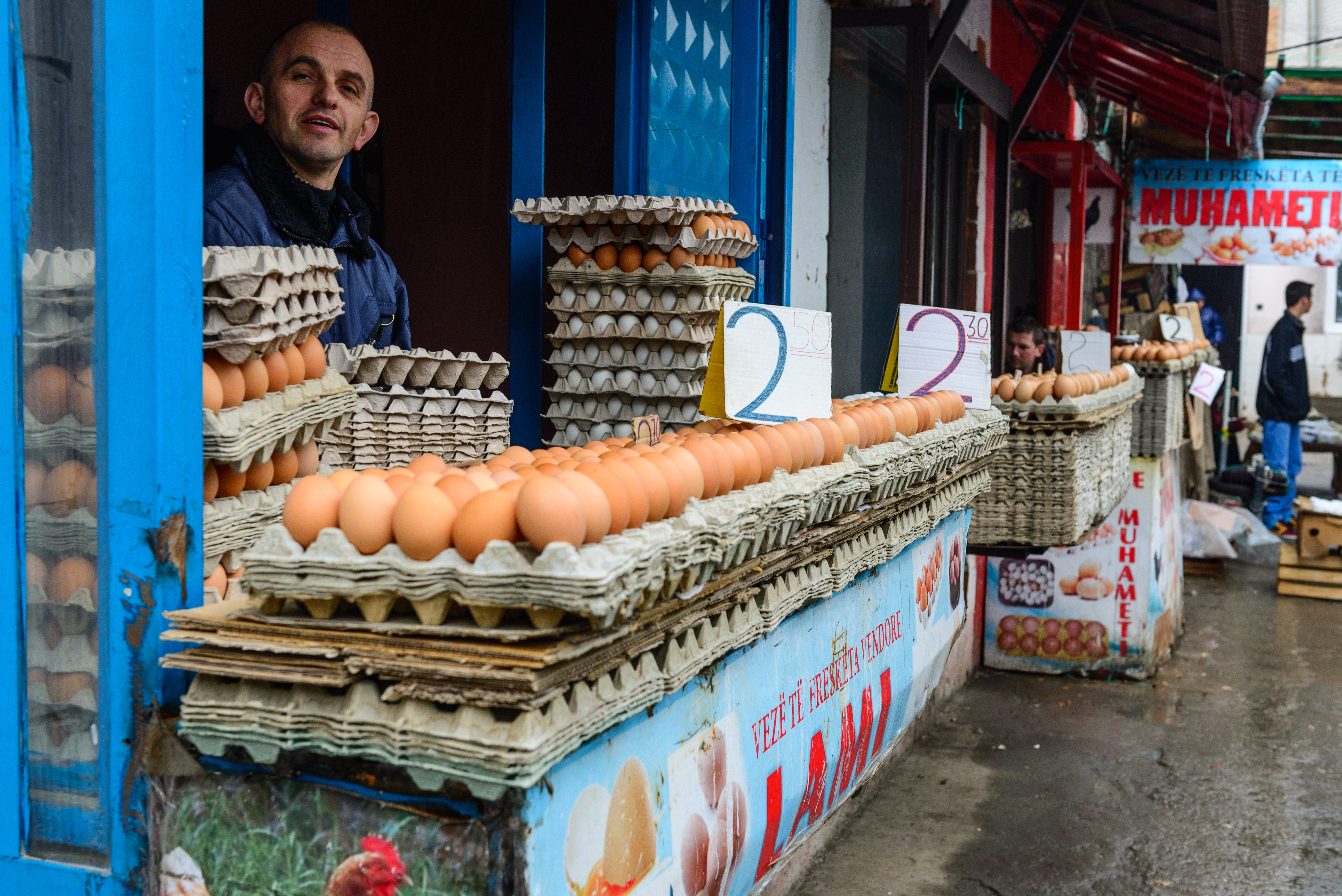 Pristina Bazaar.